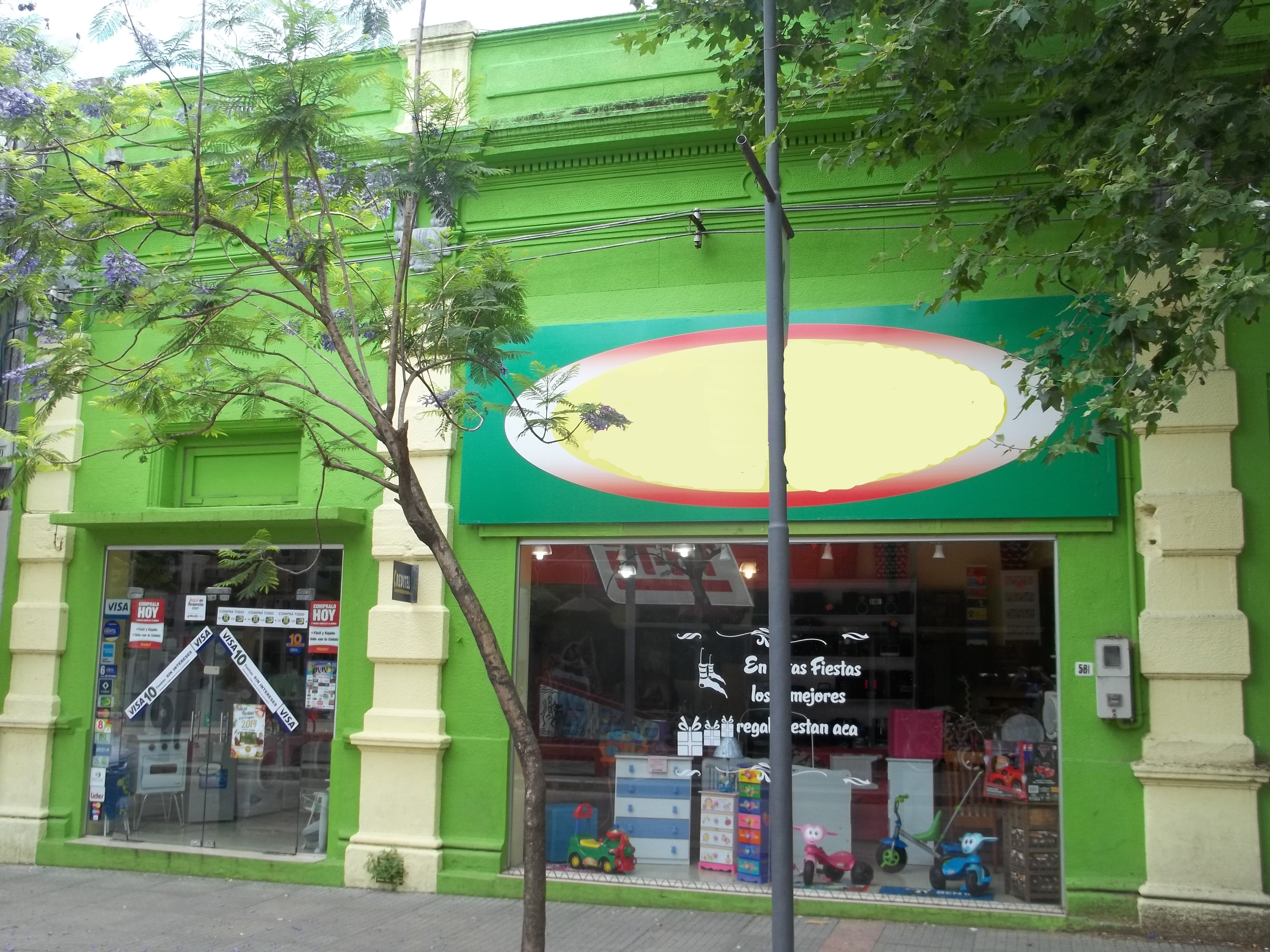 LOCAL ACTUAL DEL CAFÉ LA AMERICANA, DONDE SE FUNDO LA LIGA CIUDAD DE DURAZNO